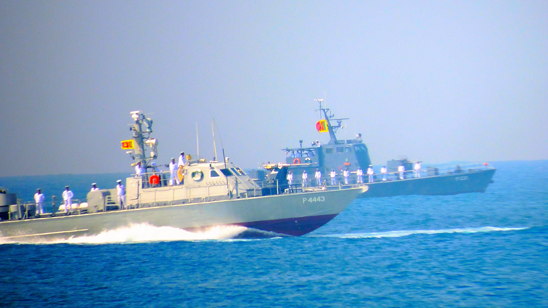 SLN fast attack craft on the 70th independence day celebration Navy display.